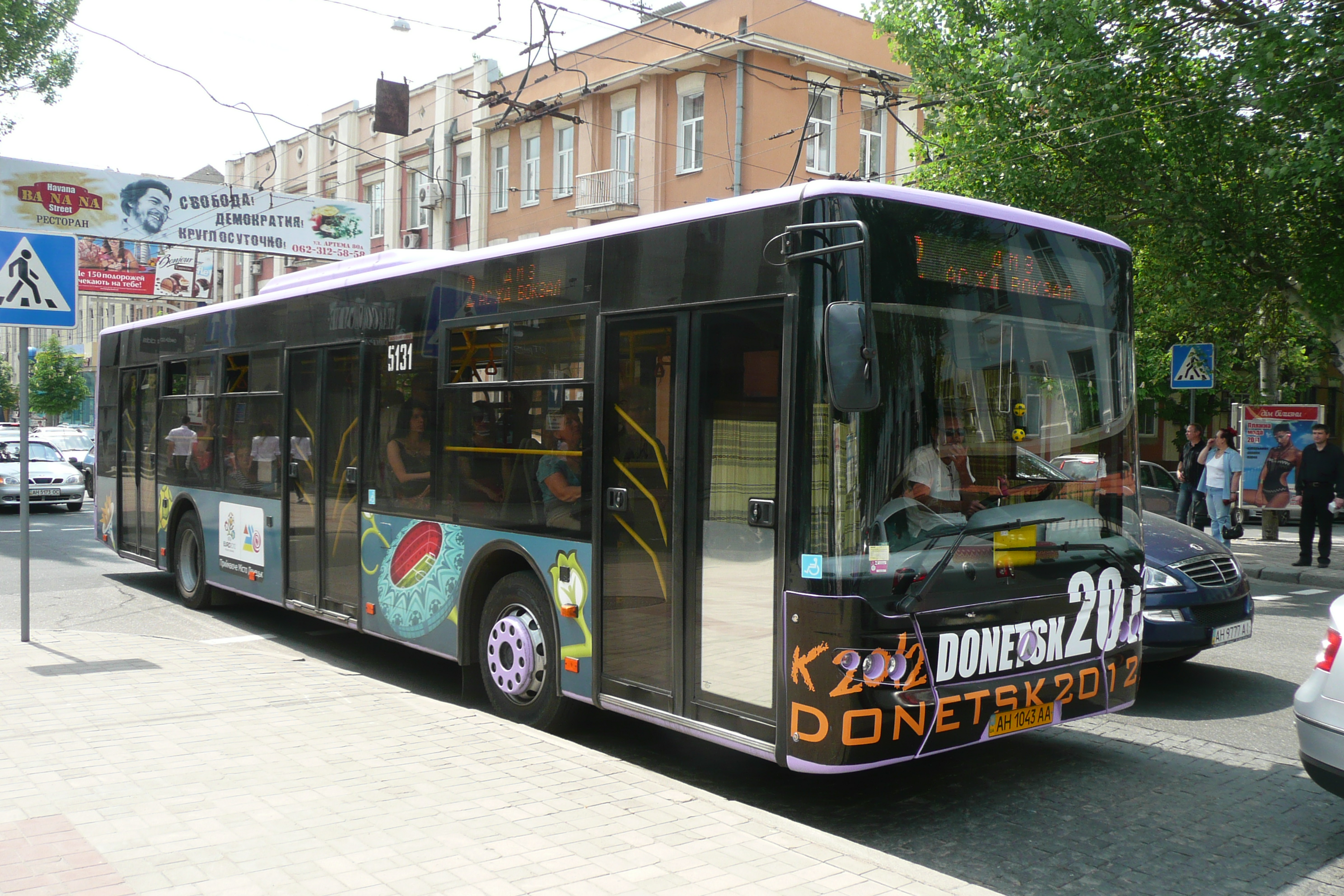 CityLAZ 12 (ЛАЗ А183D1) bus (#5131) in Donetsk, Ukraine. Built 2010, ККП ДМР Донелектроавтотранс operator.